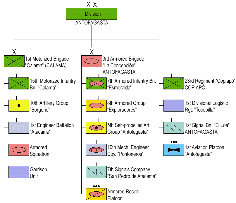 VI division del ejercito de Chile